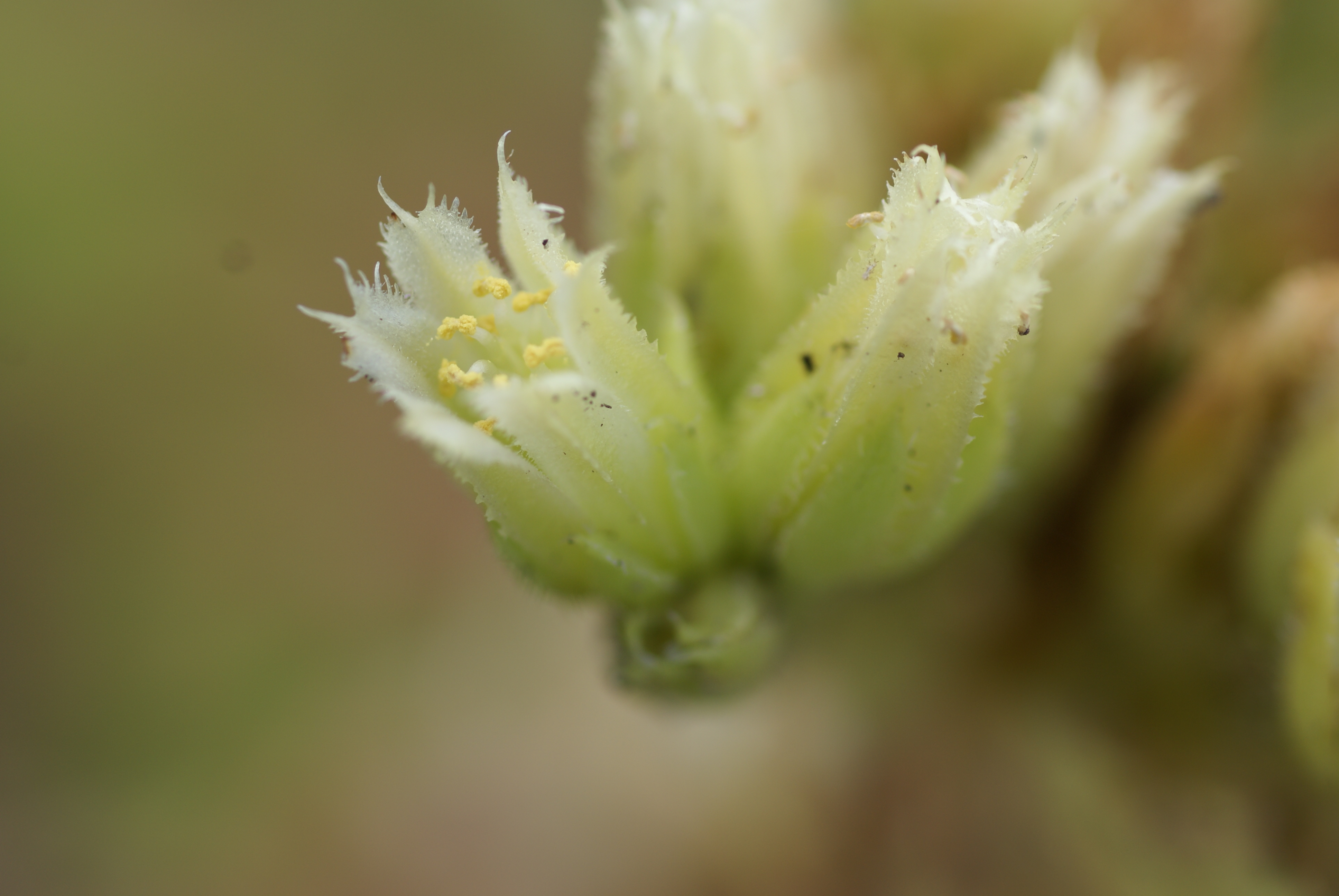 Plant species Jovibarba globifera in Bergianska trädgården, Stockholm, Sweden.